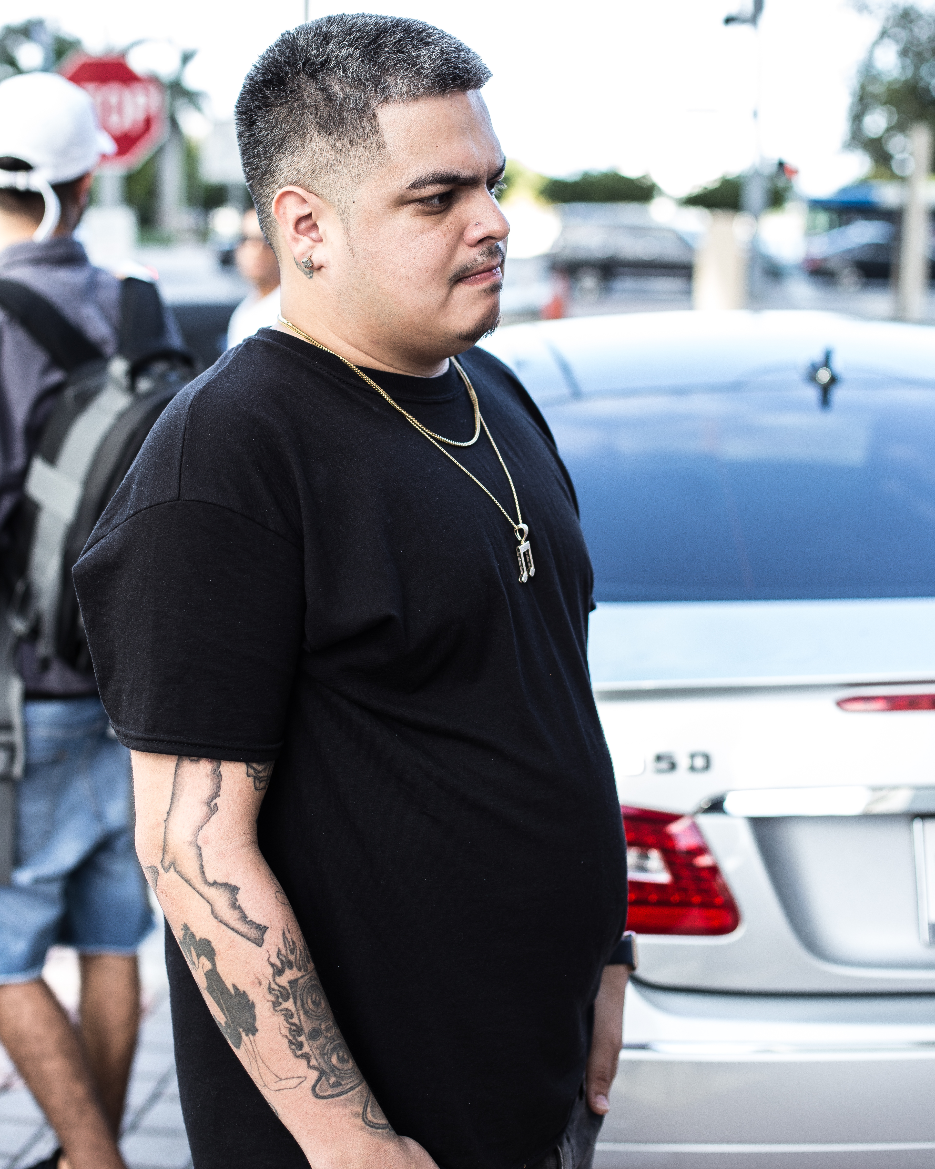 Christopher "Tito JustMusic" walking in the street